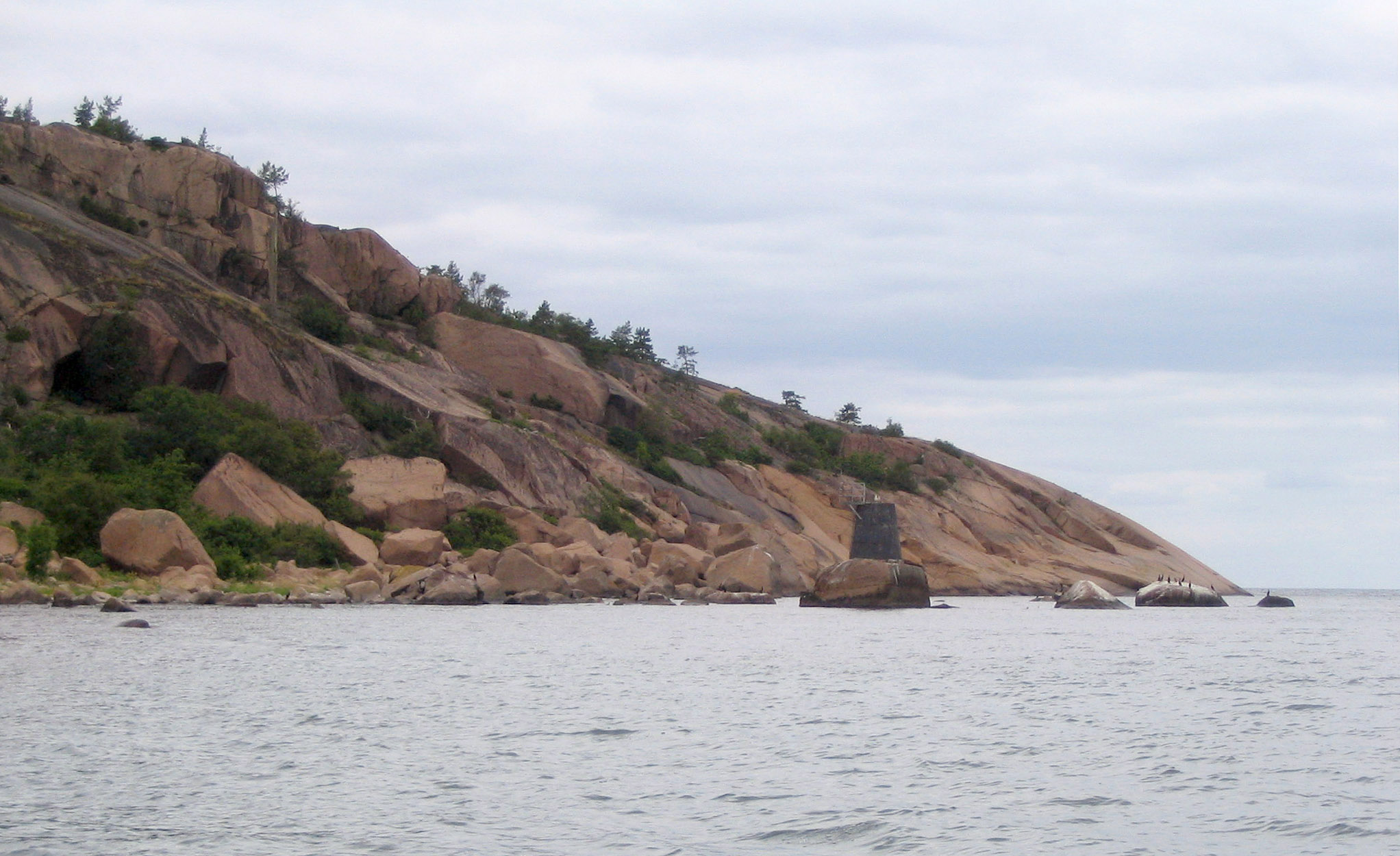 National park Blå Jungfrun, Oskarshamn municipality, Sweden, Europe.